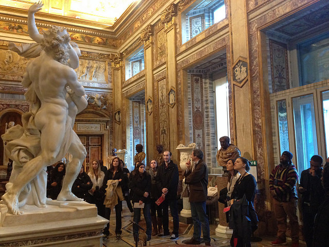 IAU College Dean, Dr. Leigh Smith, leads students through a museum in Rome as part of IAU’s January Term/Intersession programs which takes students through various cities in Europe and intertwines coursework with site specific visits.